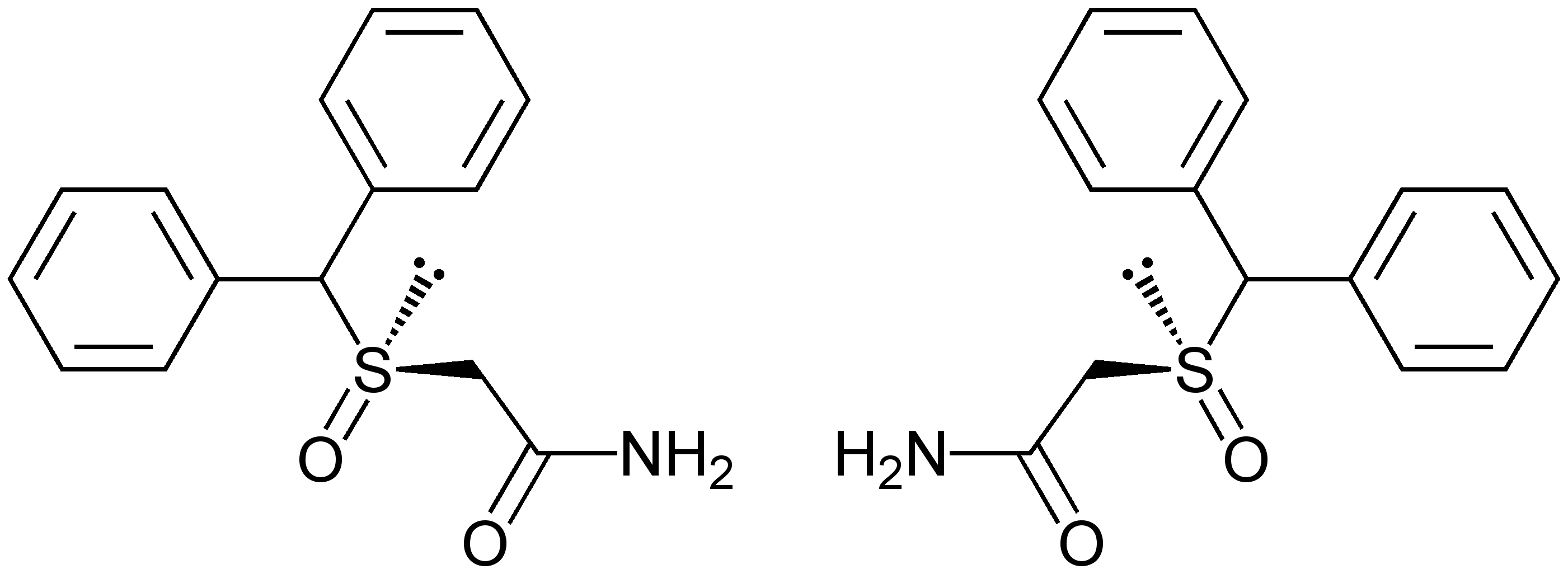 (±)-Modafinil_Enantiomers_Structural_Formulae